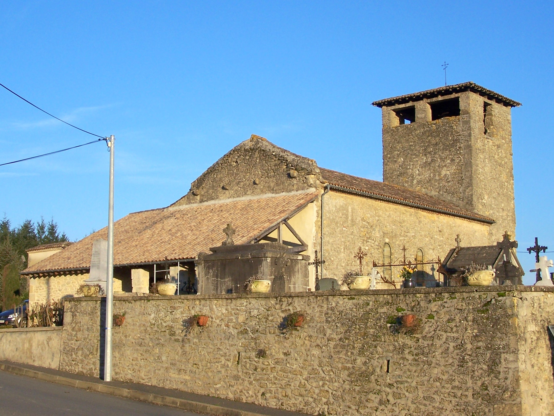 Church of Les Esseintes (Gironde, France)